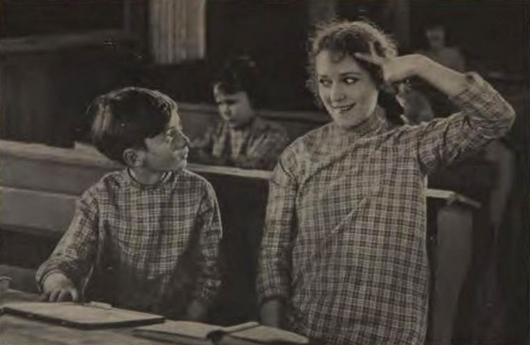 Still from the American film Daddy-Long-Legs (1919) with Wesley Barry and Mary Pickford, facing page 50 of the 1919 edition of the novel.